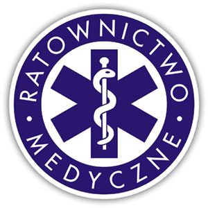 Emergency Medical Service logo